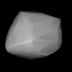 3D convex shape model of 1080 Orchis, computed using light curve inversion techniques. J. Hanuš, J. Ďurech, M. Brož, B. D. Warner (June 2011). "A study of asteroid pole-latitude distribution based on an extended set of shape models derived by the lightcurve inversion method". Astronomy and Astrophysics 530: A134. ISSN 0004-6361. arXiv